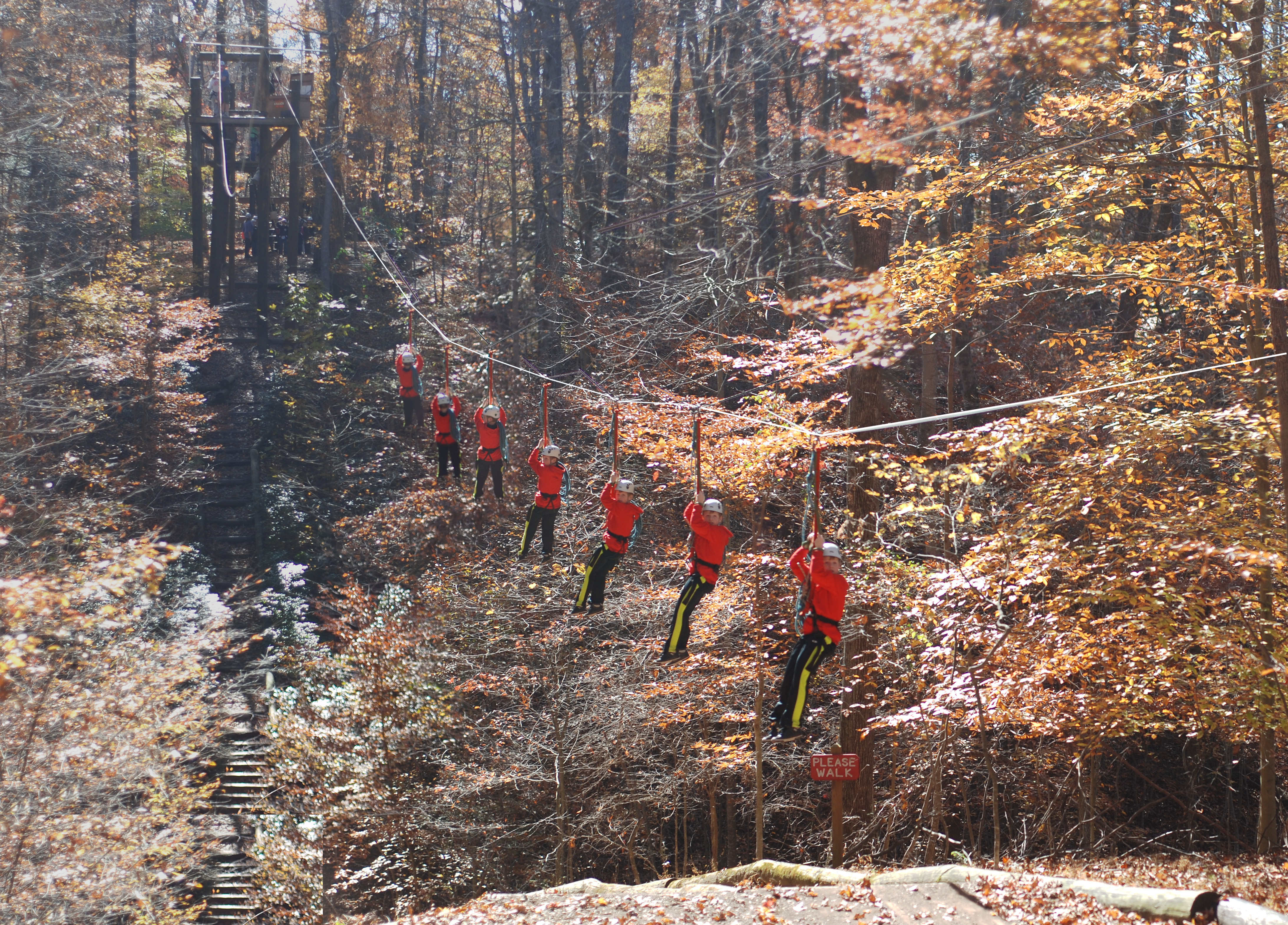 Hemlock Overlook Challenge Course: Zip-line